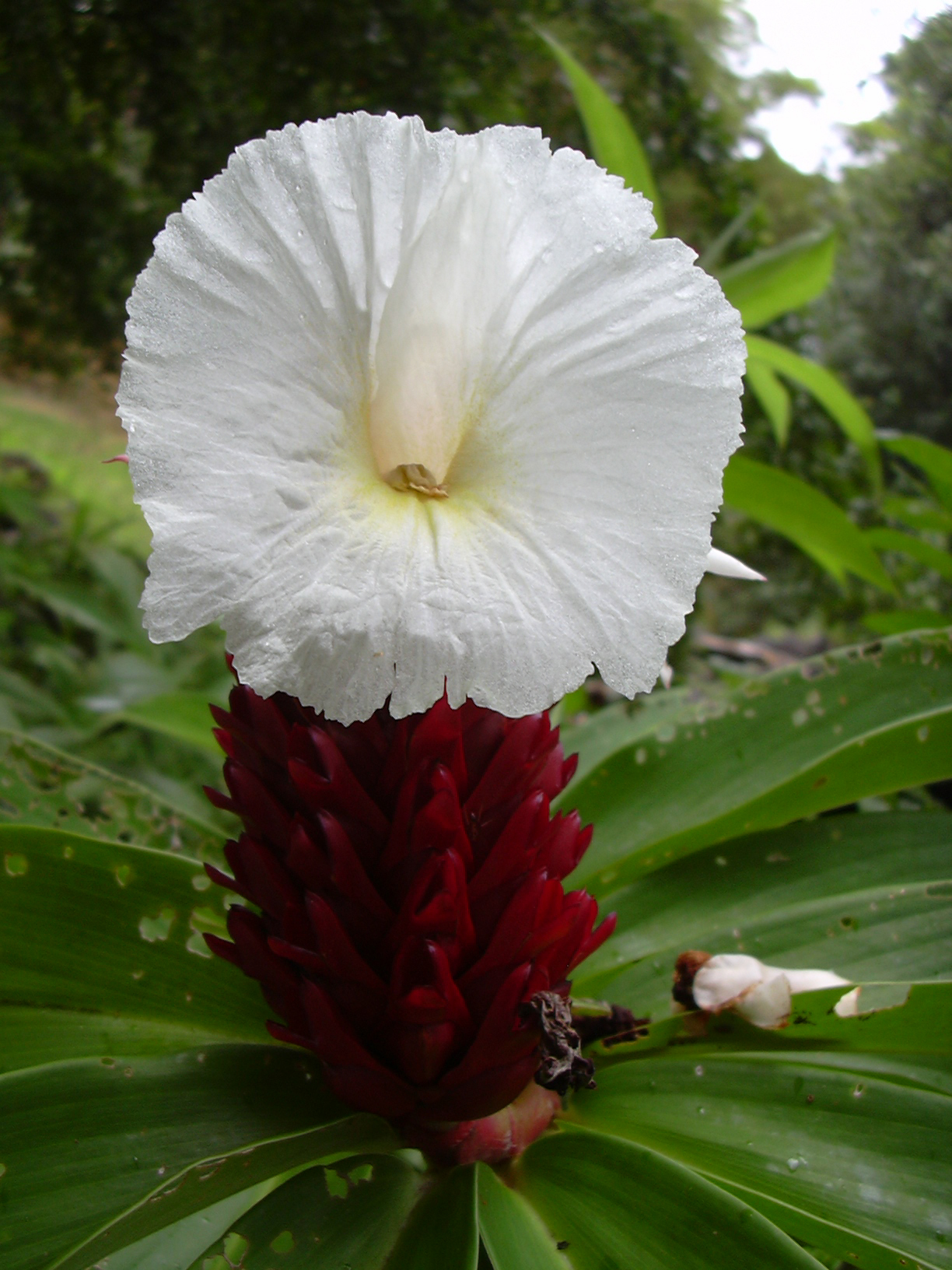 Costus speciosus (flower). Location: Maui, Keanae Arboretum